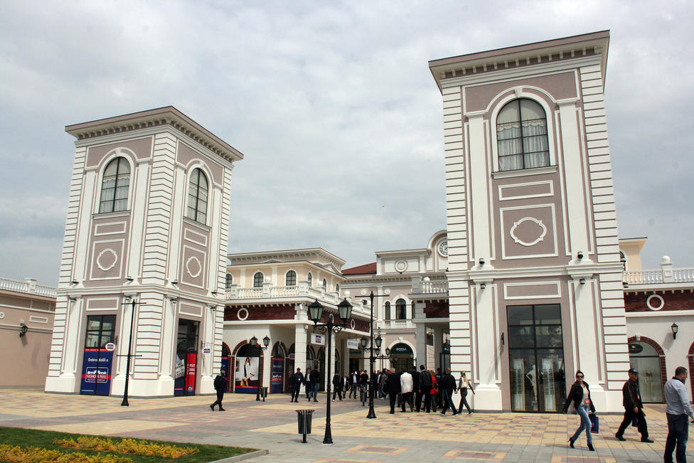 Outlet center in Inđija, Serbia.